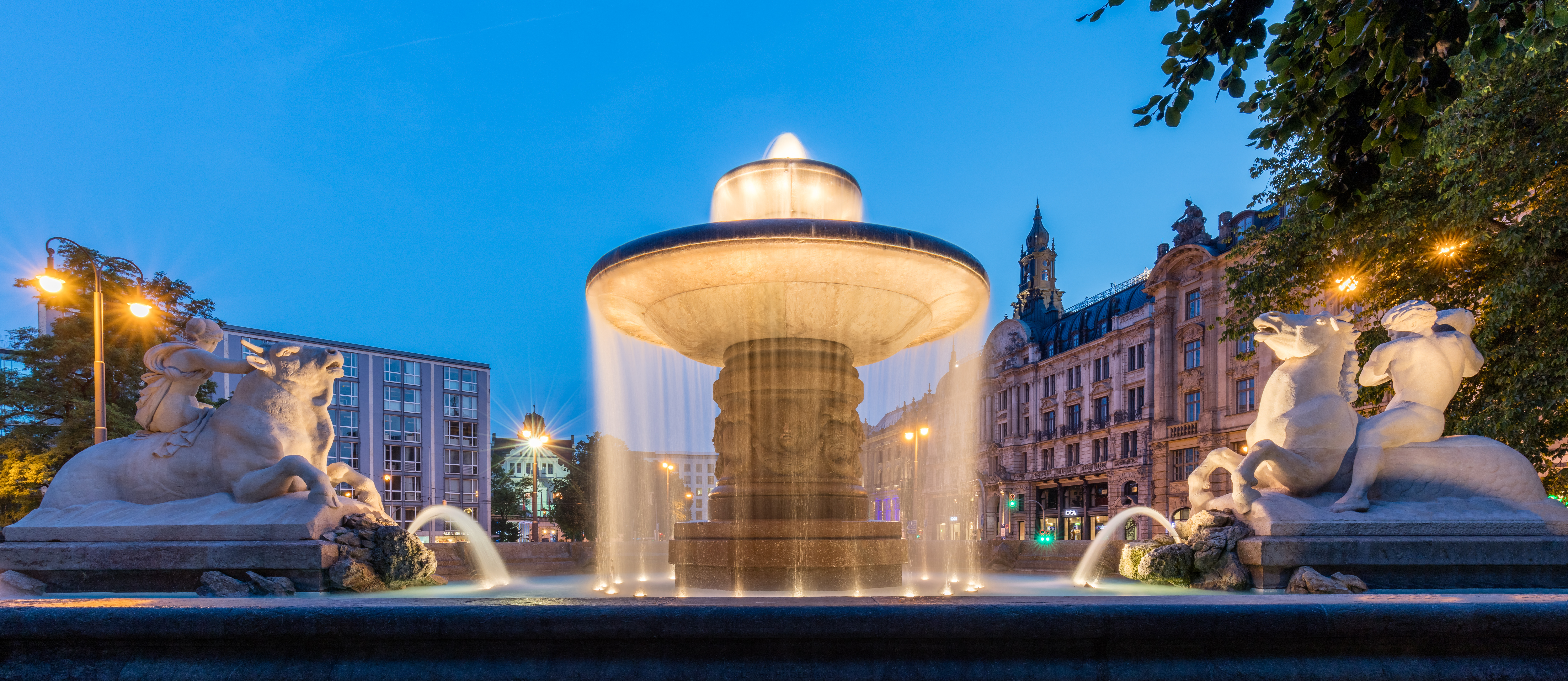 The monumental Wittelsbacher fountain in the northern part of central Munich, in Bavaria, Germany. The sculpture on the left is of a woman seated on a bull, holding a bowl, and depicts the healing qualities of water; on the right, a man sits astride a horse and hurls a rock, representing water's destructive power. Built between 1893 and 1895, the design follows drawings of the sculptor Adolf von Hildebrand.